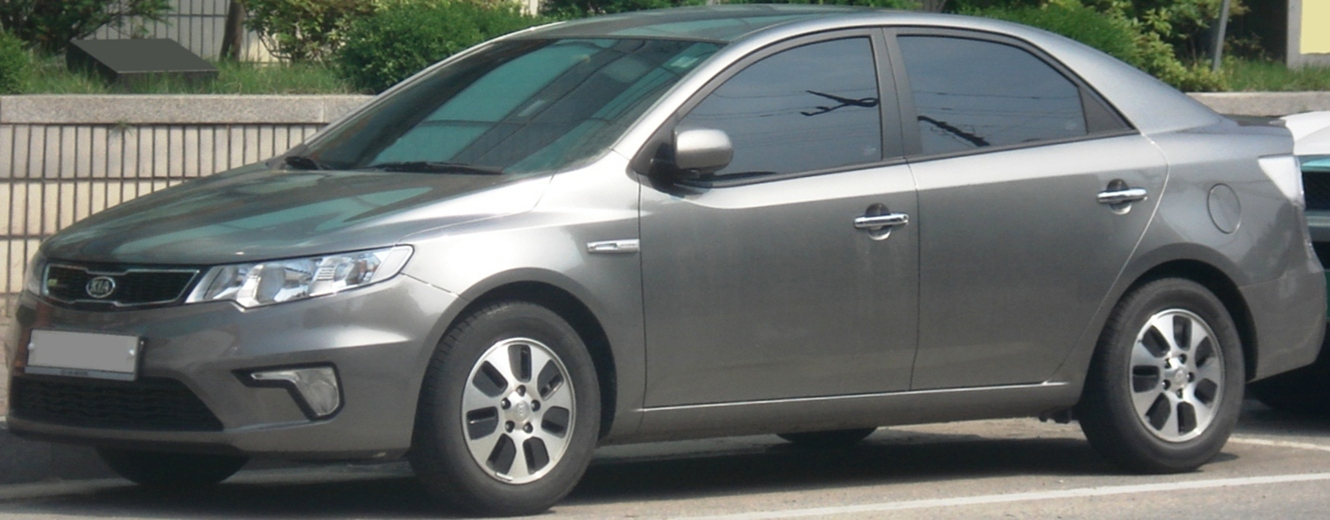 Kia Forte Hybrid LPi